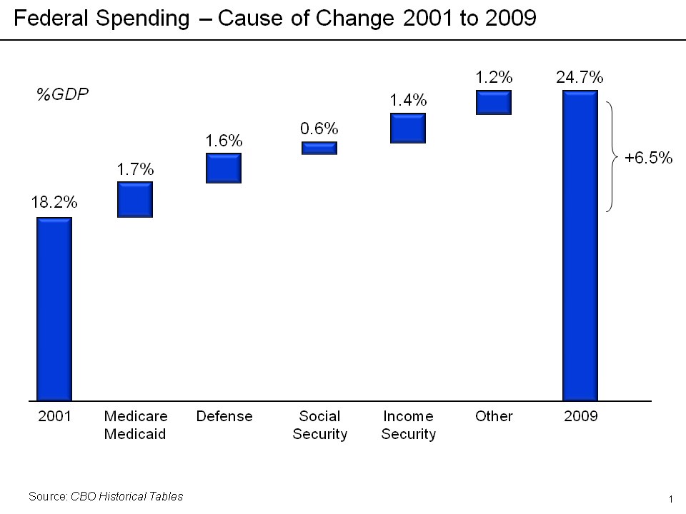 United States Federal spending as % of GDP - Cause of change from 2001 to 2009 Sources The U.S. federal budget was last balanced in FY2001. Spending was 18.2% of GDP. It has since risen to 24.7% of GDP, a change of 6.5%. The major change categories, according to the CBO historical tables:[1] Medicare & Medicaid: +1.7% GDP. Increases were driven by demographic shifts of an aging population and annual healthcare cost increases in the 7-9% range. Defense: +1.6% GDP. Increases were driven by a doubling of defense spending in dollar terms, for both the baseline defense budget and Iraq/Afghanistan Wars.[2] Social Security: +0.6% GDP. Increases are driven by demographic shifts of an aging population creating more beneficiaries and annual cost of living adjustments. Income Security: +1.4% GDP. This includes food stamps, unemployment compensation, foster care, other retirement and disability. This has increased significantly due to the subprime mortgage crisis. Other: +1.2% GDP. This includes non-defense discretionary spending increases (e.g., Cabinet Departments) and other mandatory spending (e.g., stimulus, bailouts) due to the crisis. References ↑ CBO-Historical Tables ↑ DOD-Defense Spending Trend Chart-May 2009